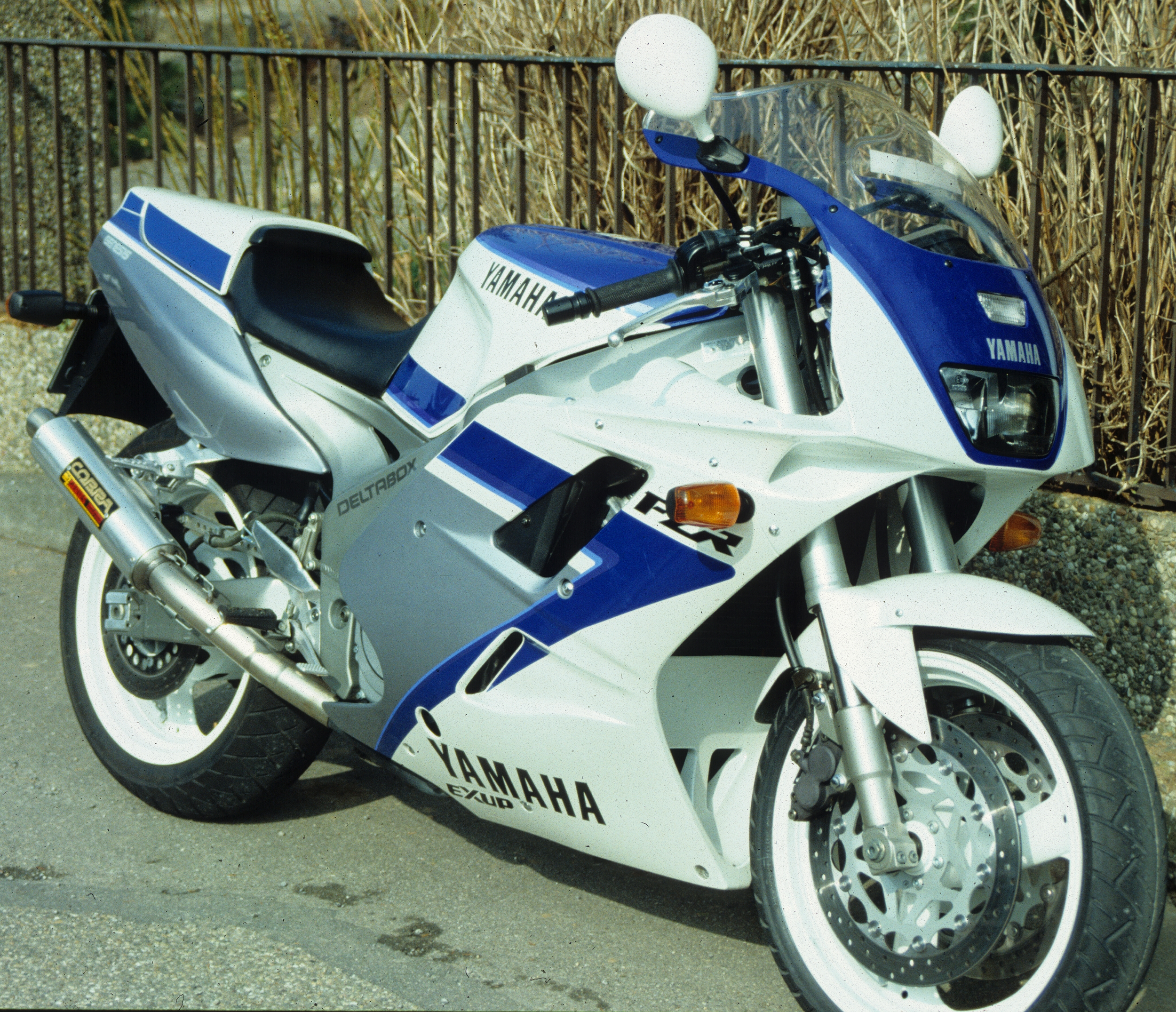 Yamaha FZR1000 Exup